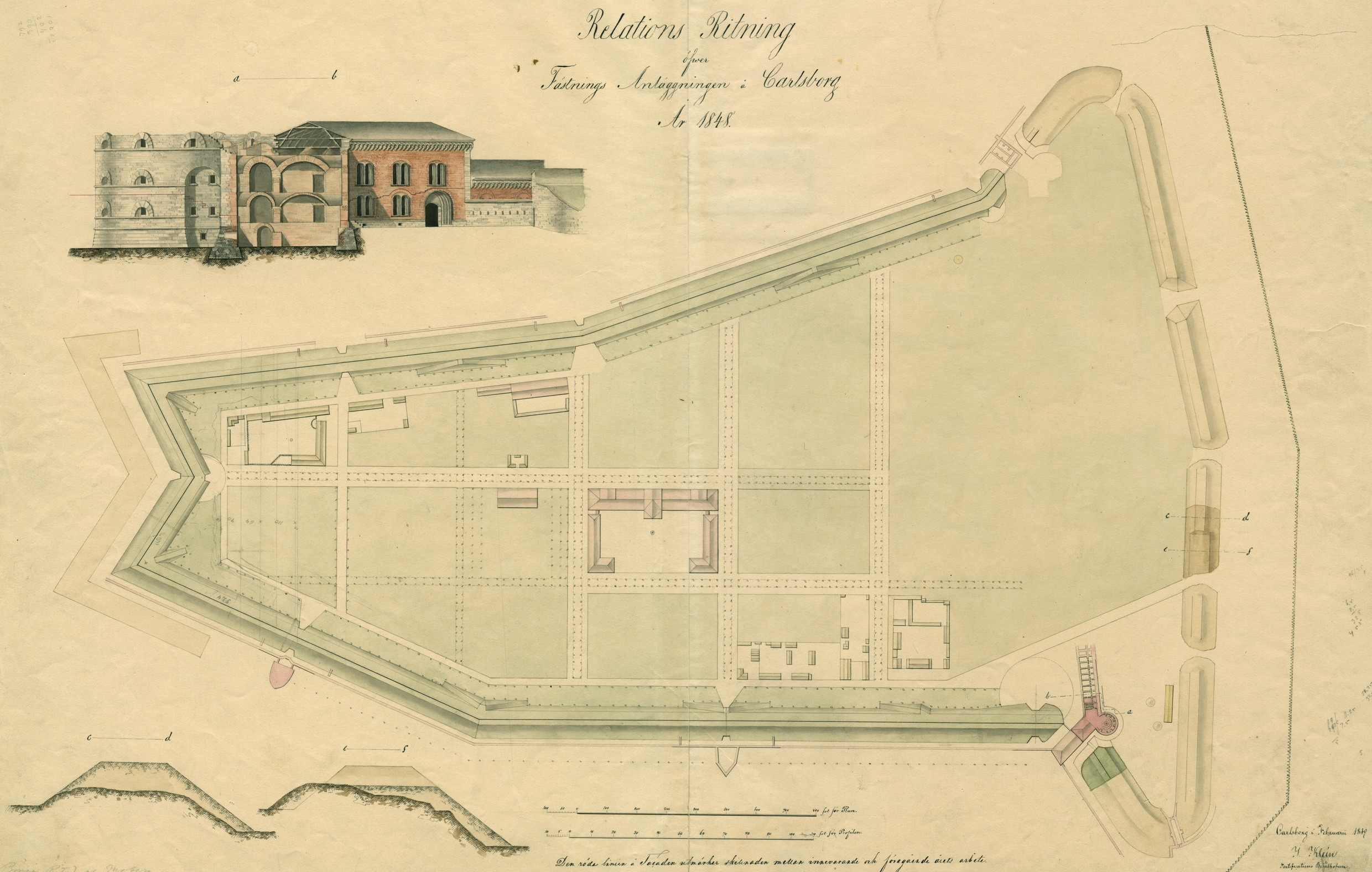 Annual progressmap for the year 1848 of the buildingsite at Karlsborg fortress, Sweden. The 678 metre reduit, defensive barracks colored in pink at the bottom right, was built between 1844 and 1866.